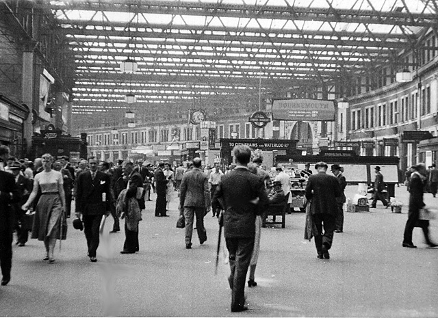 Waterloo (Main) Station in 1955, concourse. View NW from the Platform 1 end, in the evening rush - and in a heat-wave. (Note the smart dress - and the umbrellas). This was 1955 - compare with 1964 - to follow.